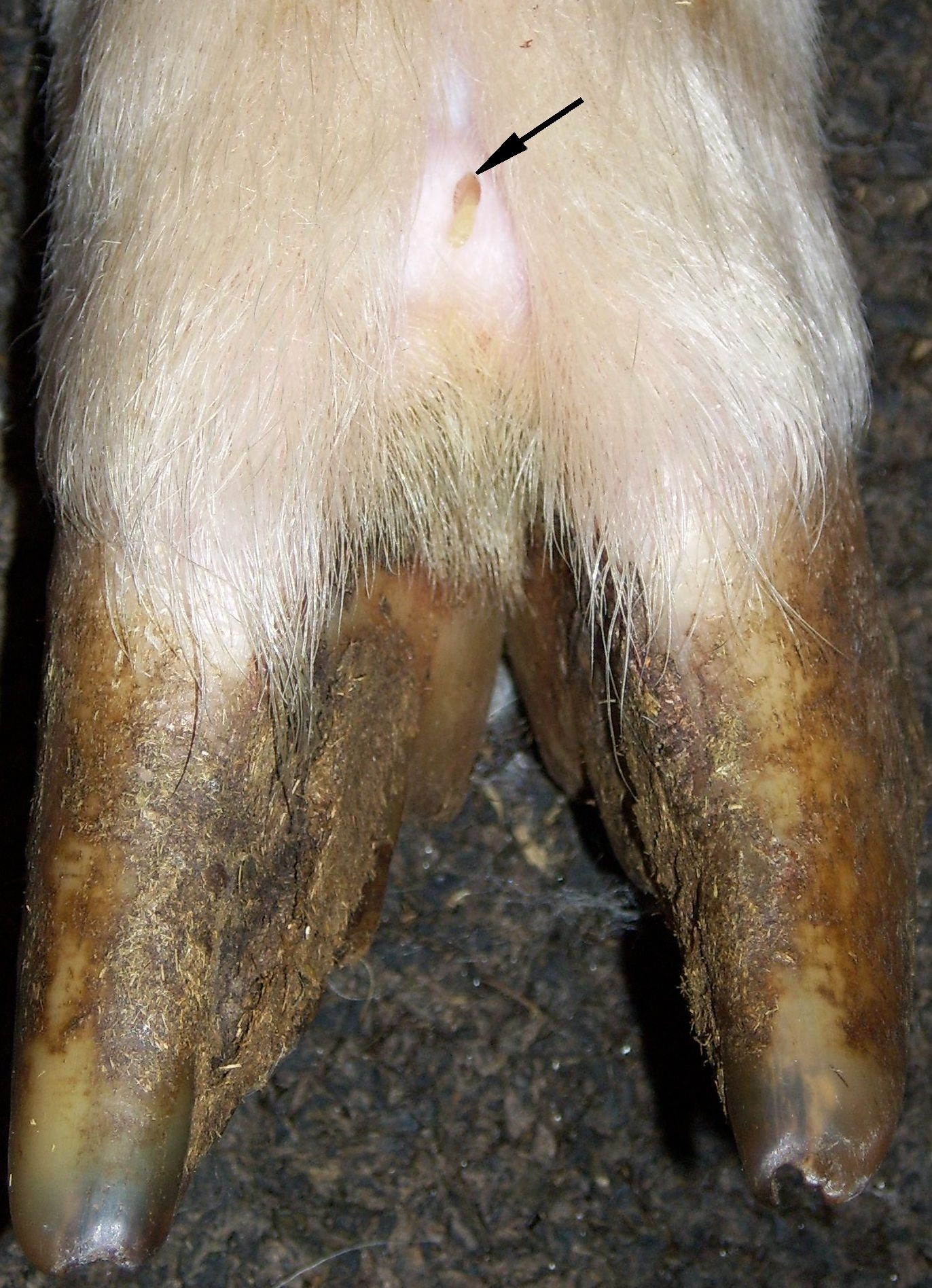 Interdigital organ of a sheep